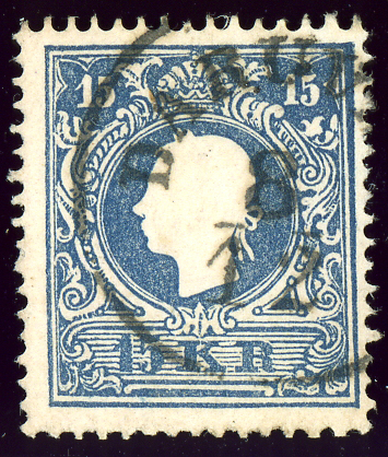 Austrian KK 15 kr stamp, issue 1859, cancelled DARUVAR, Croatia-Slavonia. Mueller 30 points.